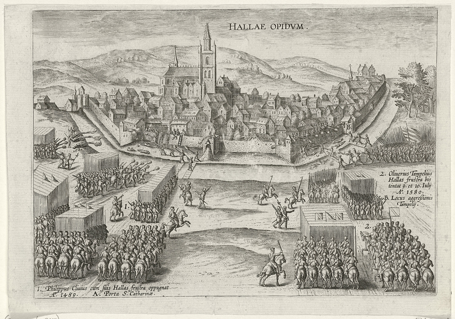 Attack on Halle 1580. Latin captions: HALLAE OPIDVM ("THE CITY OF HALLE") 1. Philippus Clivius cum suis Hallas frustra oppugnat Ao. 1489 ("Philip of Cleves and his following besiege Halle in vain in the year 1489"). A. Porta S. Catharinæ ("A. Saint-Catharine's Gate") 2. Oliuerius Tempelius Hallas frustra bis tentat 9. et 10. Iulij Ao. 1580. ("2. Olivier van den Tympel tries Halle twice in vain on the 9th and 10th of July in the year 1580.") B. Locus aggreßionis Tempelij. (B. "Location of Tympel's attack.")